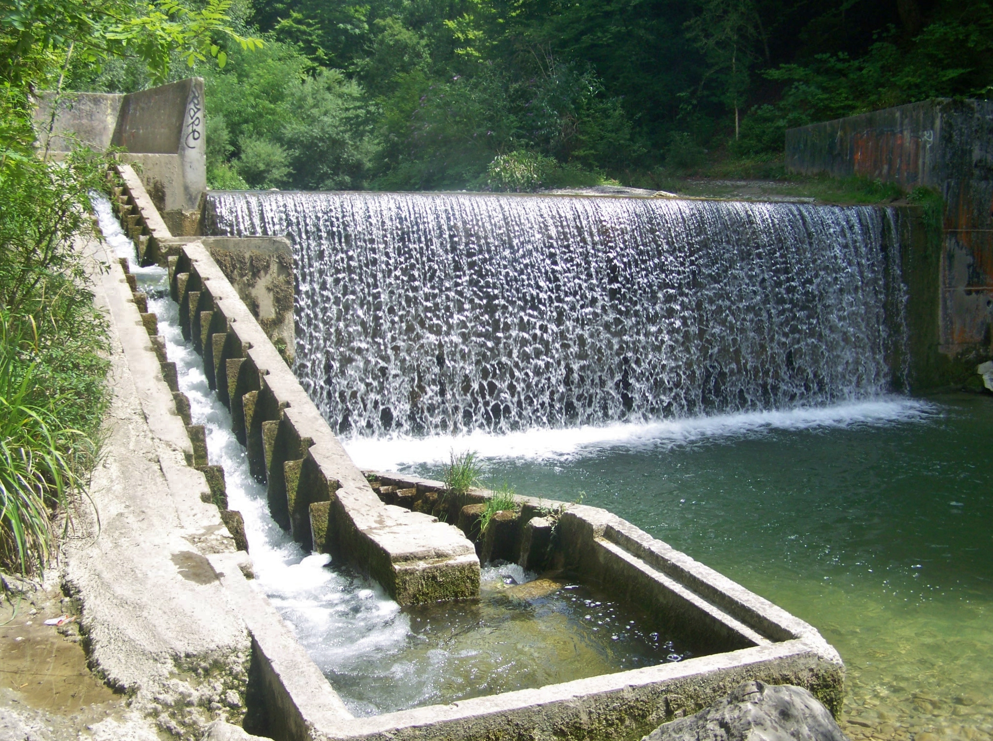 Weir and fish ladder on the Leysse river between Saint-Jean d'Arvey and Barby near Chambéry in Savoie, France.